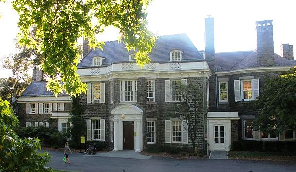 A view of Wave Hill House, September 2014